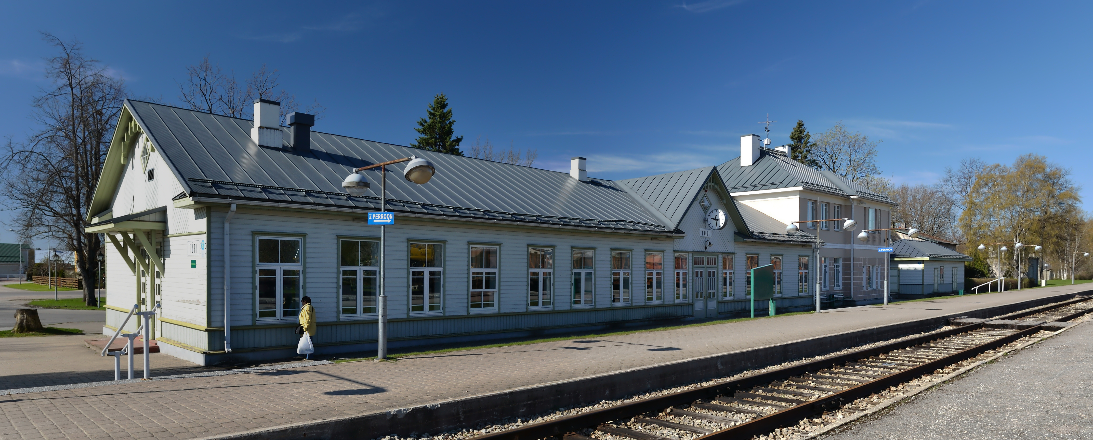 Türi station main building